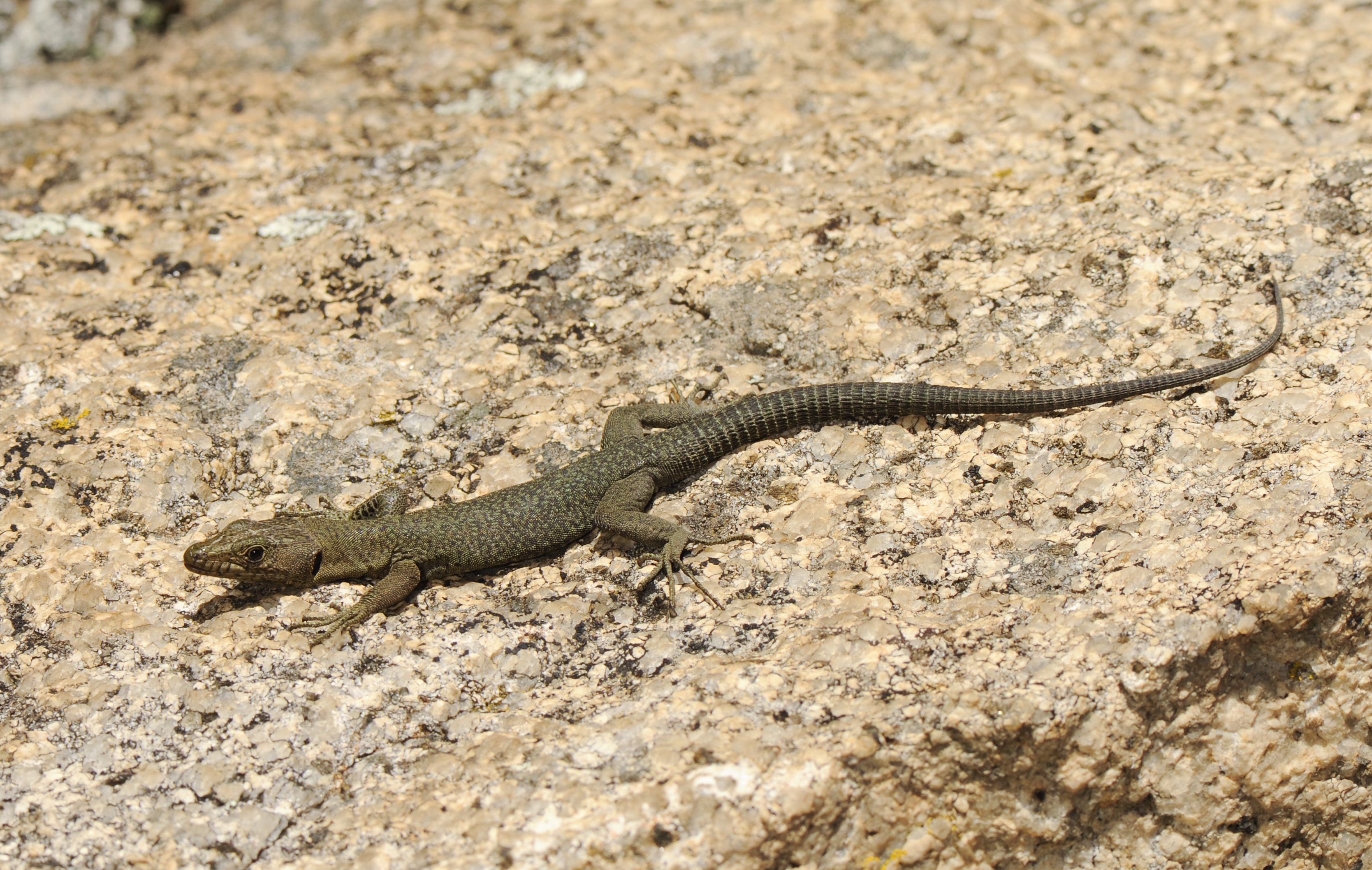 Archaeolacerta bedriagae